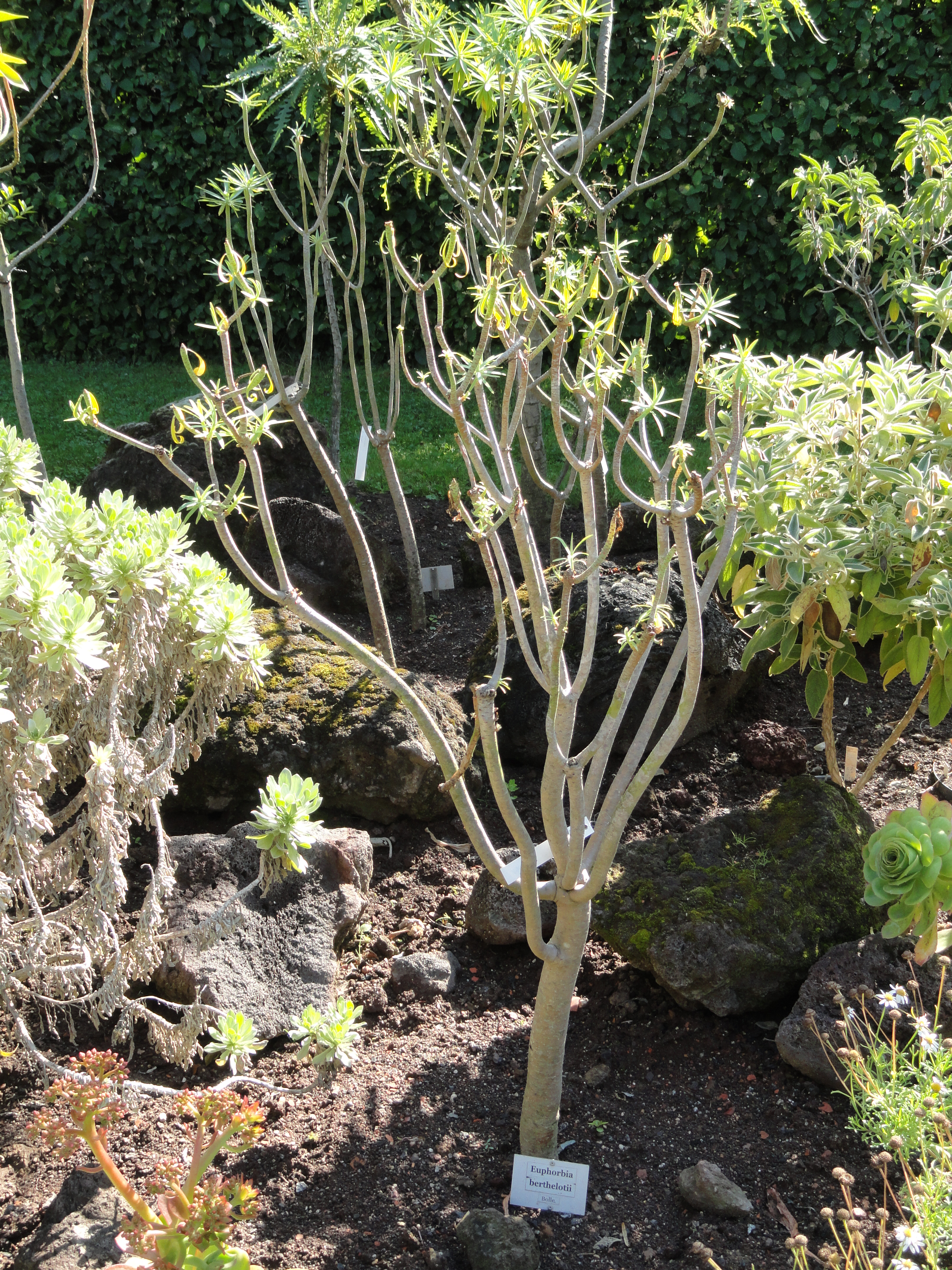 Botanical specimen in the Botanischer Garten, Frankfurt am Main, located at Siesmayerstraße 72, Frankfurt am Main, Germany.